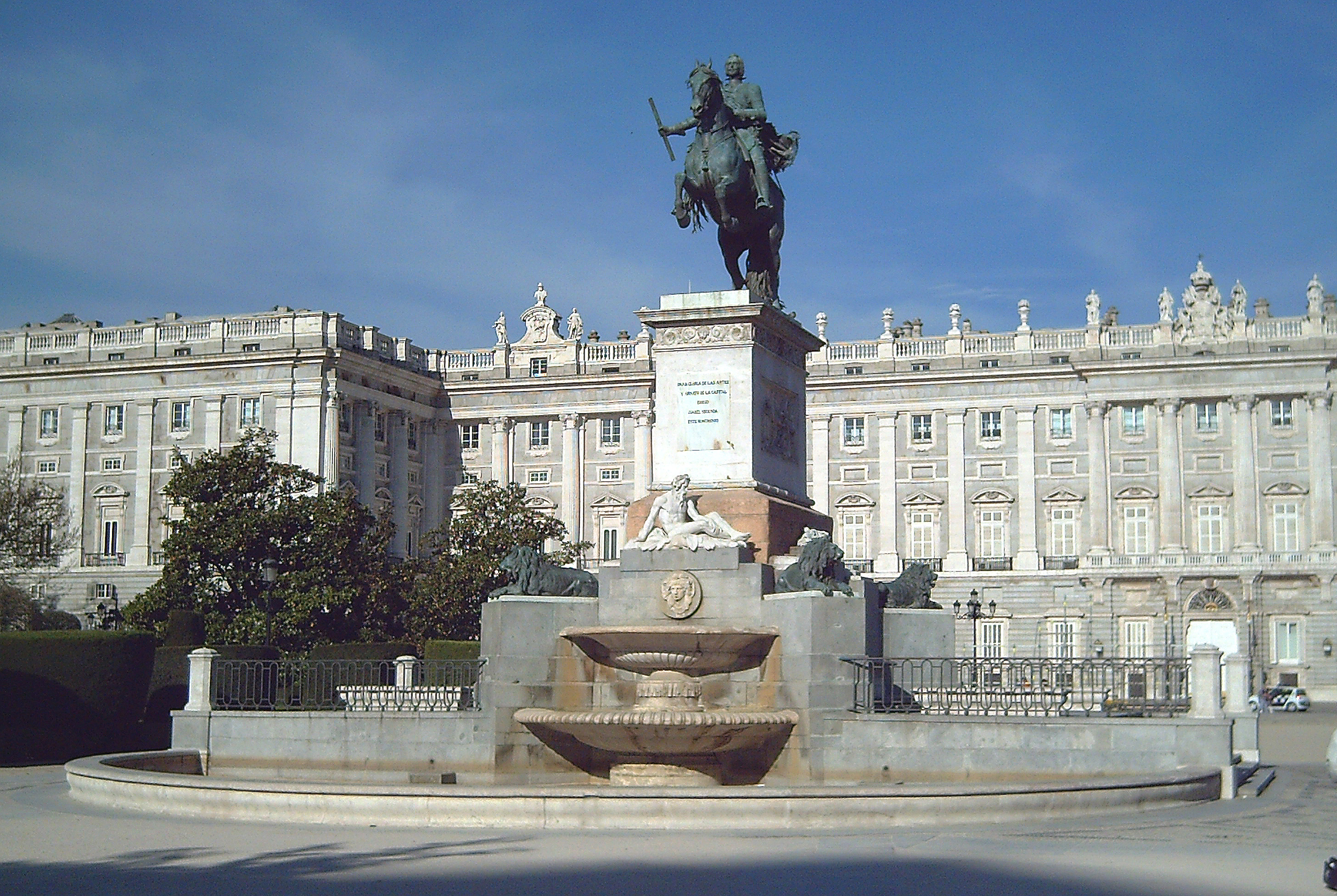 Monument to Philip IV of Spain (1605–1665) at the Plaza de Oriente (square) in Madrid (Spain), inaugurated in 1843. Bronze equestrian statue was made by Pietro Tacca (1577–1640) between 1634 and 1640.